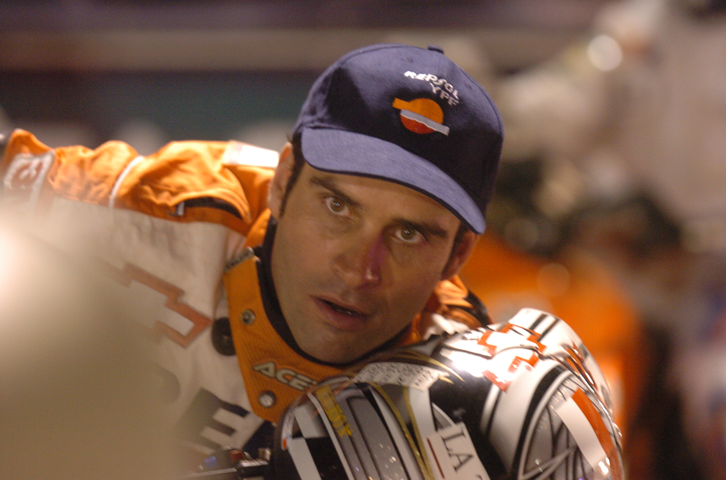 Carlo de Gavardo Photo